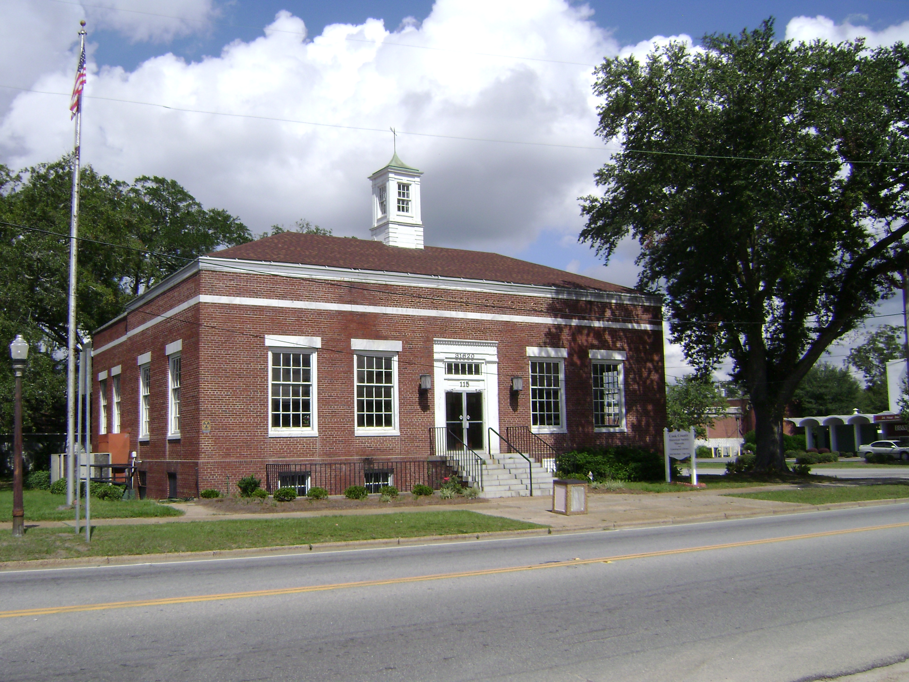 Southwest corner of Cook County Historical Society Museum